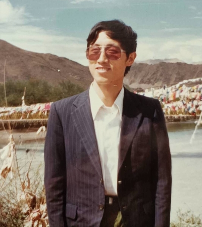 Chiu-chiang Wang in 1983, photo taken in Tibet.